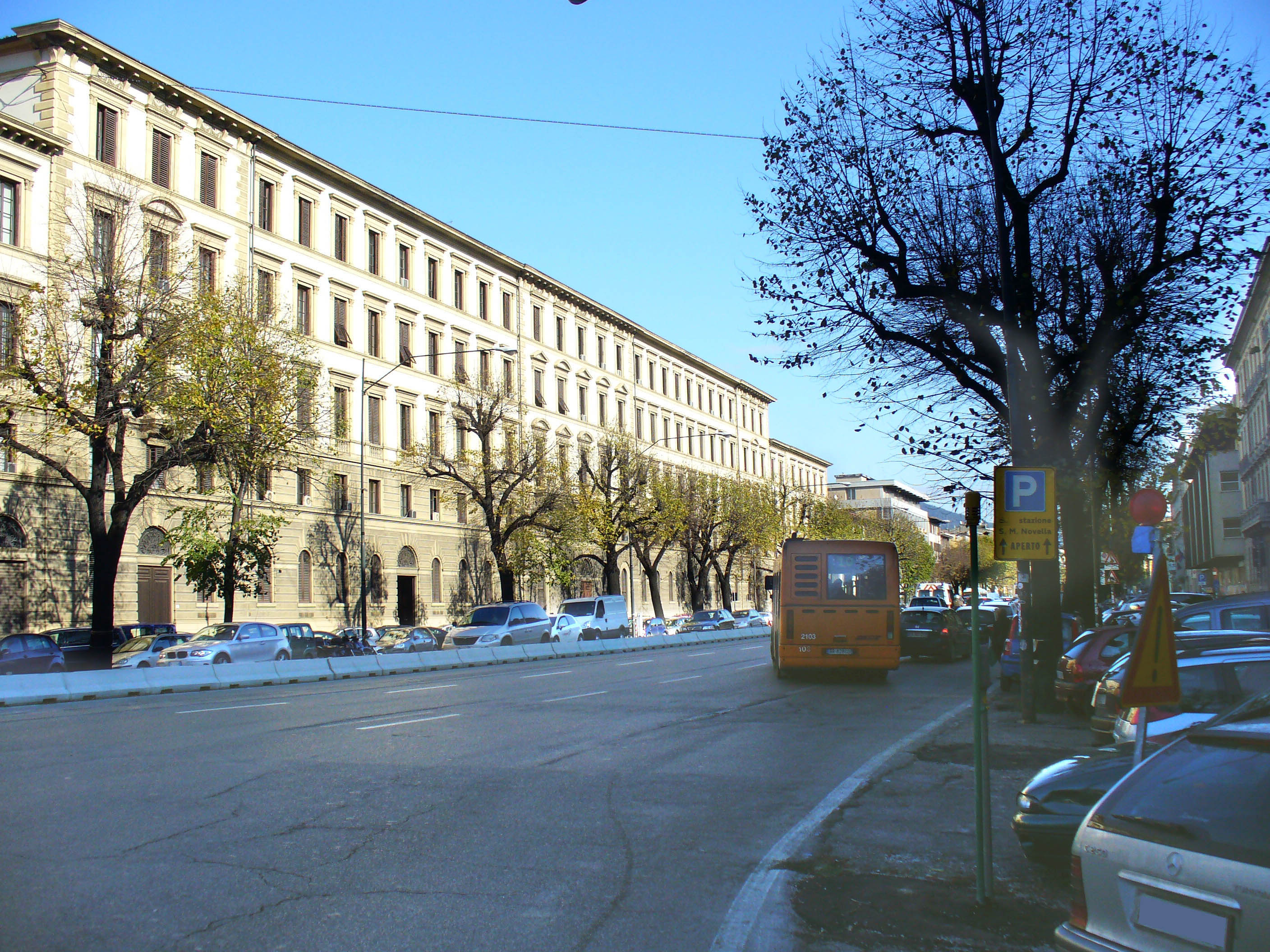 Viale Spartaco Lavagnini (Firenze)